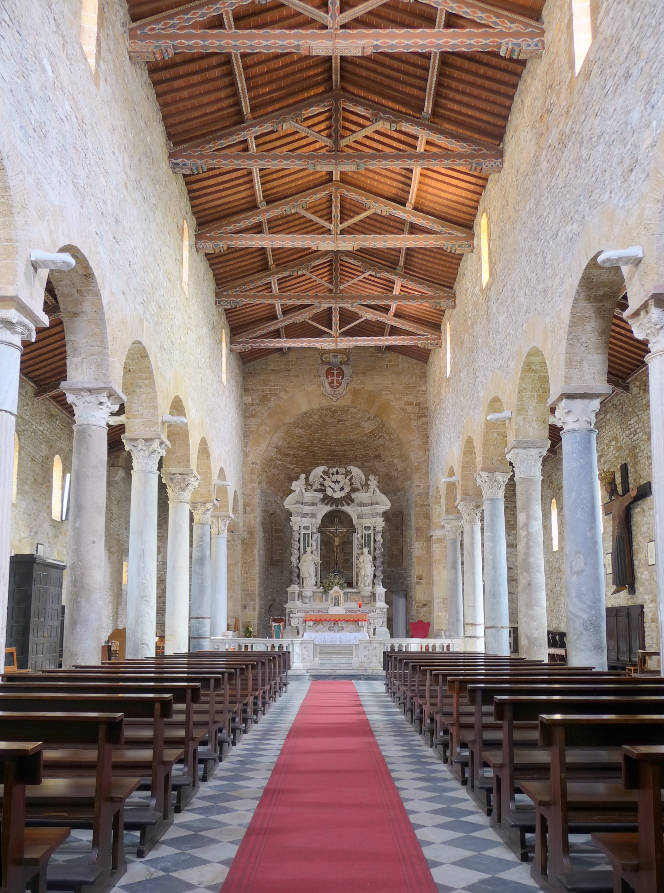 Church "San Sisto", Pisa. Italy